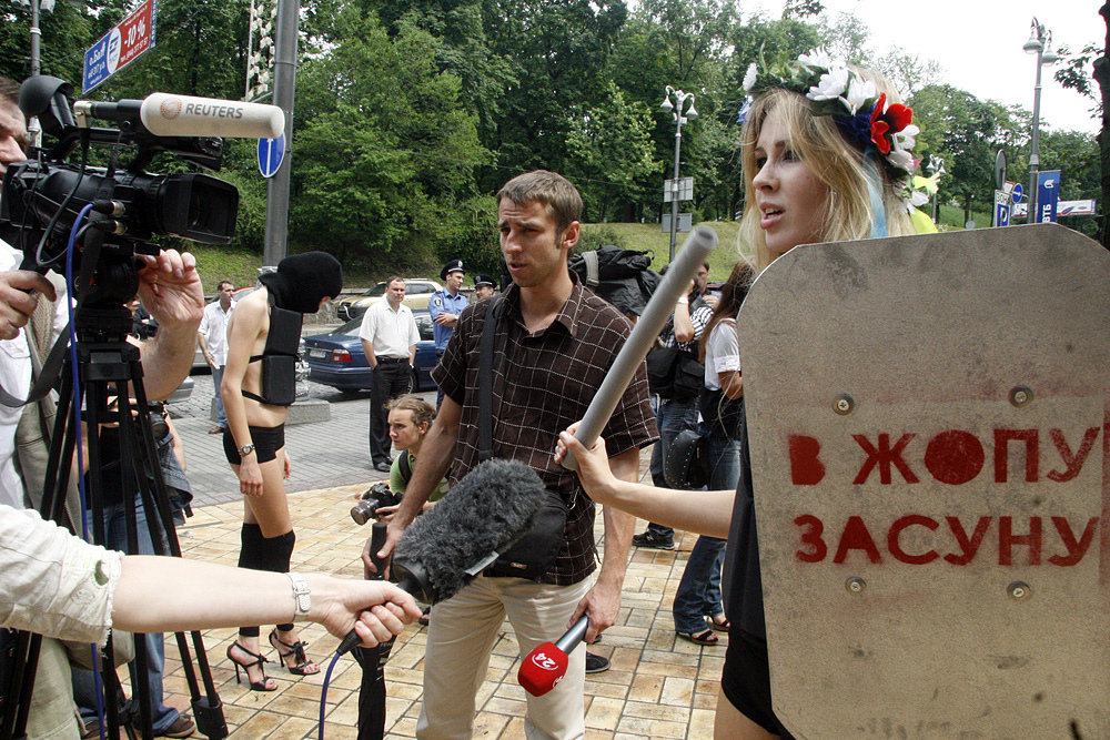 Activists of the Ukrainian womens movement FEMEN dressed as policemen beat journalists, photographers and cameramen during their symbolic protest action called "100 days" on Independence Square in Kiev on June 3, 2010. They protested against the limitation of democratic liberties and freedom of the press during the first hundred days of Viktor Yanukovych's presidency commemorated today. photo FEMEN / Yaroslav Debelyi